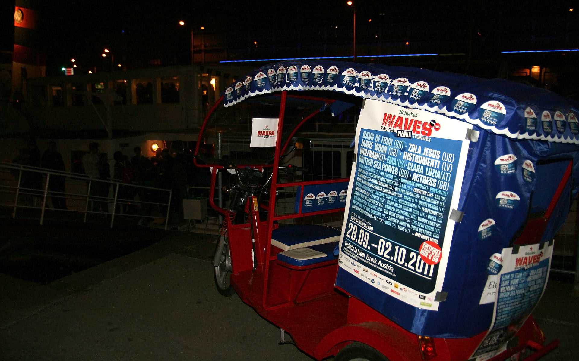 Waves Vienna Music Festival & Conference 2011 in Vienna.